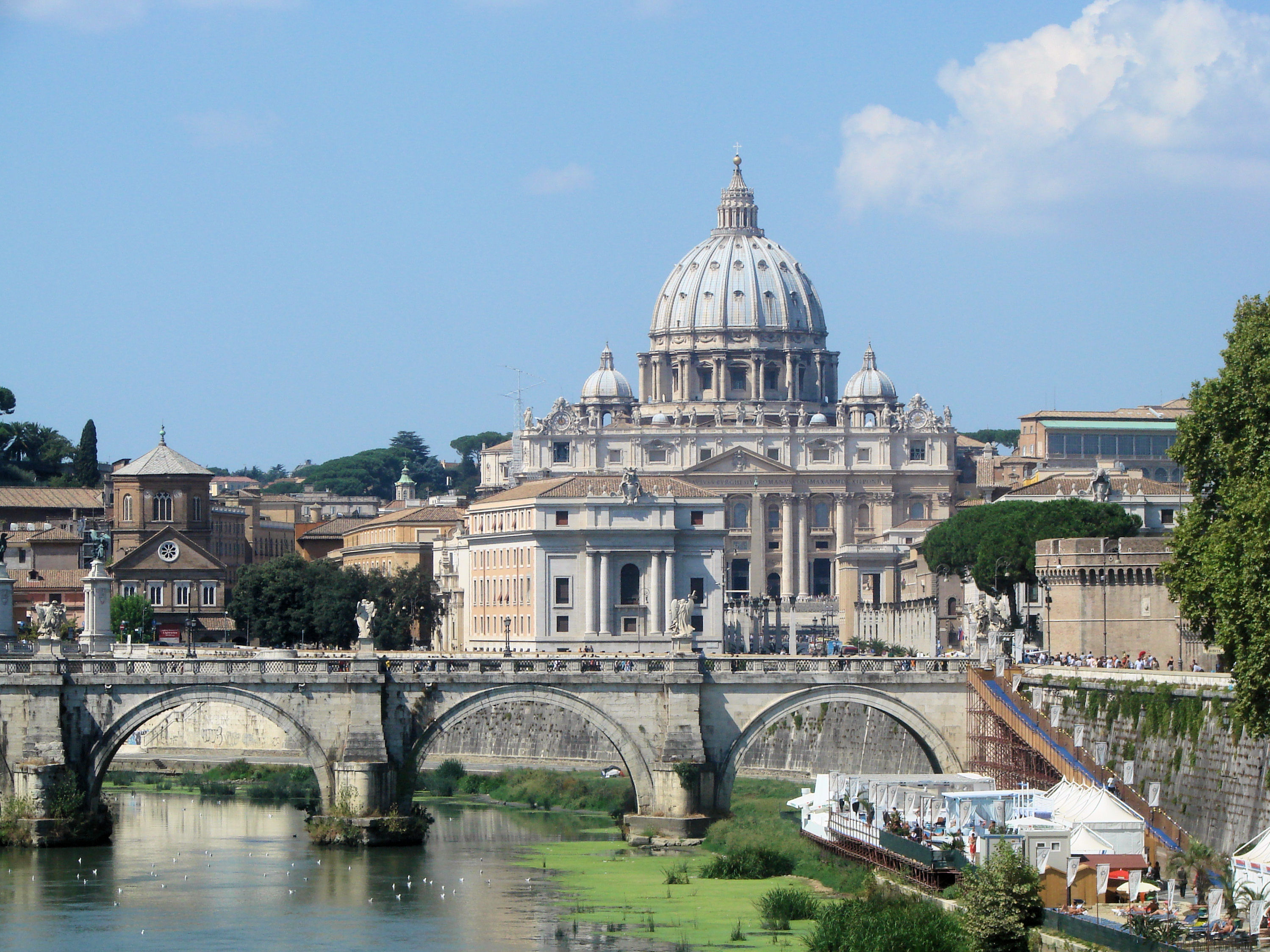 Vatican viewed from river.